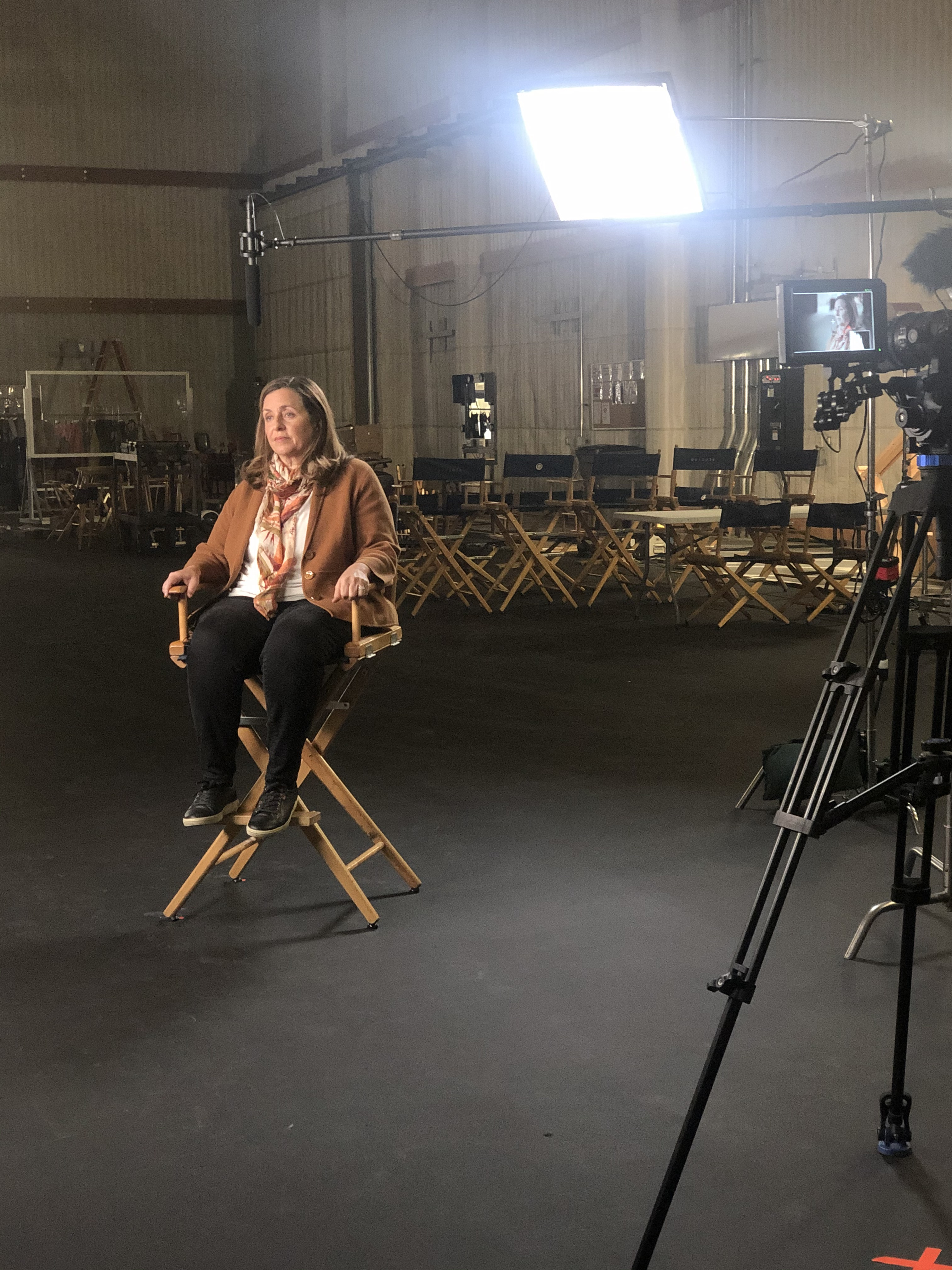 Susanne Daniels YTO Stages